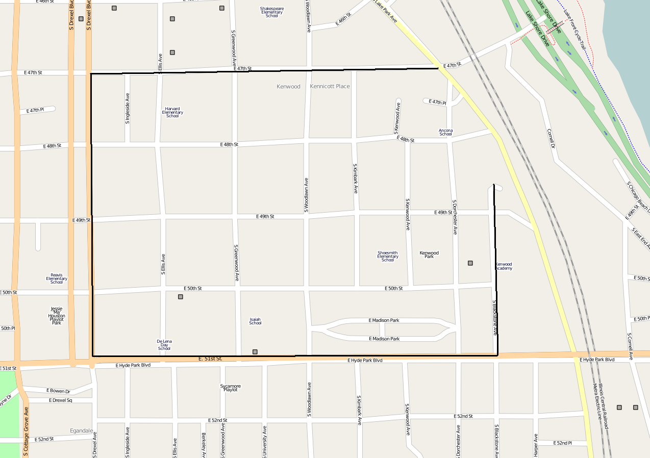 Kenwood District of Chicago, Illinois This map may be incomplete, and may contain errors. Don't rely solely on it for navigation.